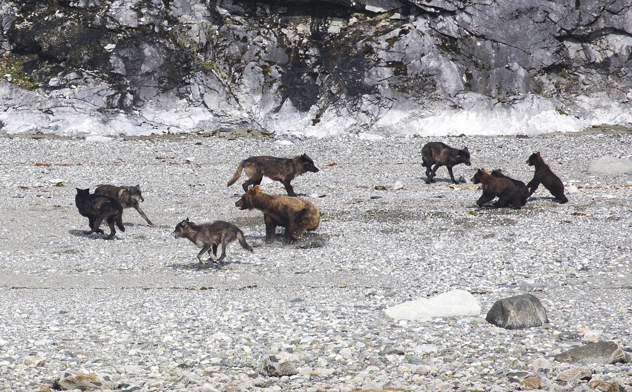 Admiralty Dream